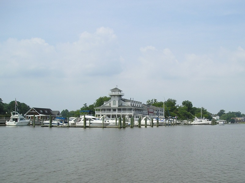 Smithfield Station hotel, restaurant, and marina viewed from the confluence of Cypress Creek and the Pagan River in Smithfield, Virginia.